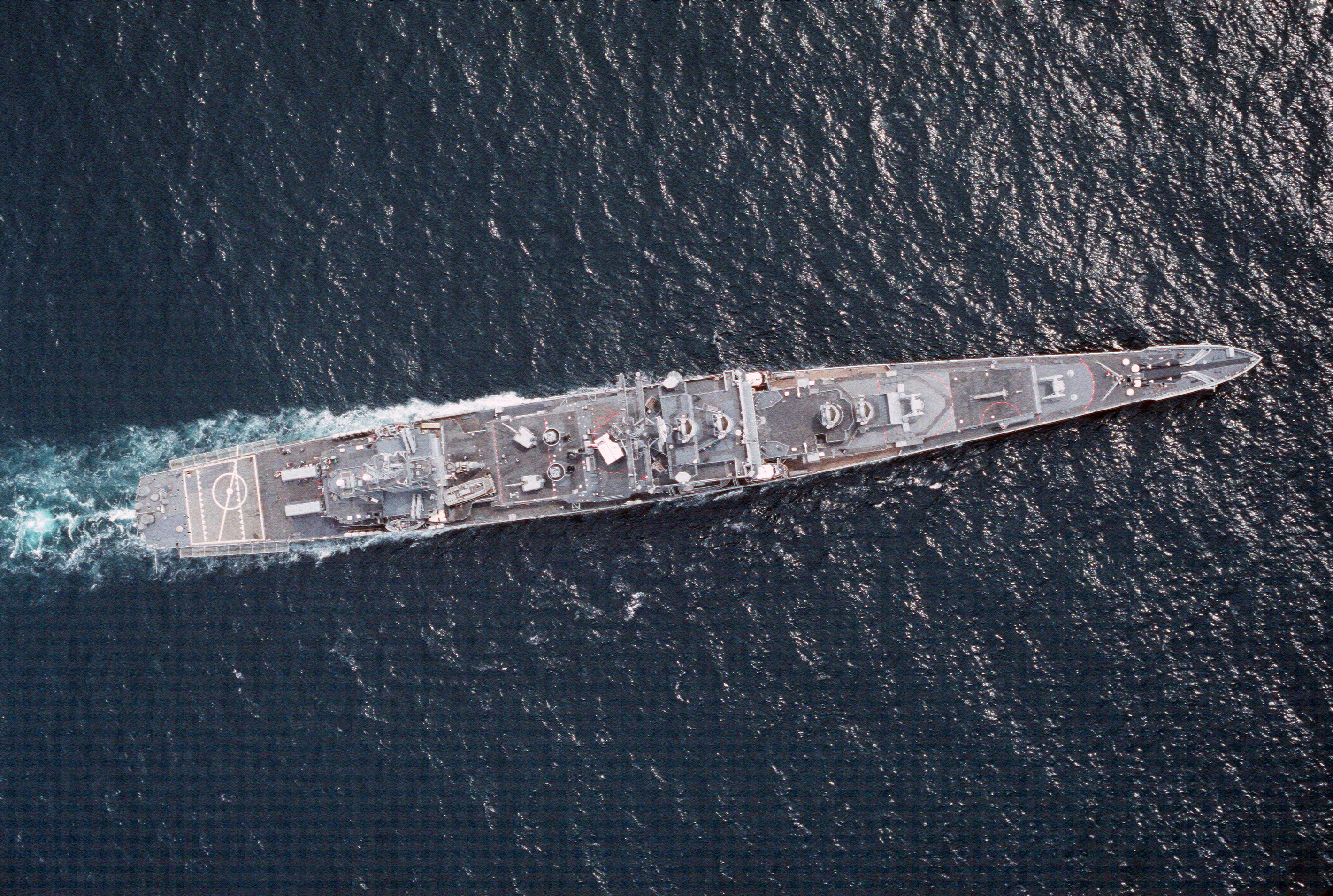 Overhead view of the U.S. Navy guided missile cruiser USS Long Beach (CGN-9) on 21 June 1989. The photo shows the armoured box launchers for the BGM-109 Tomahawk cruise missiles aft, installed in 1985.